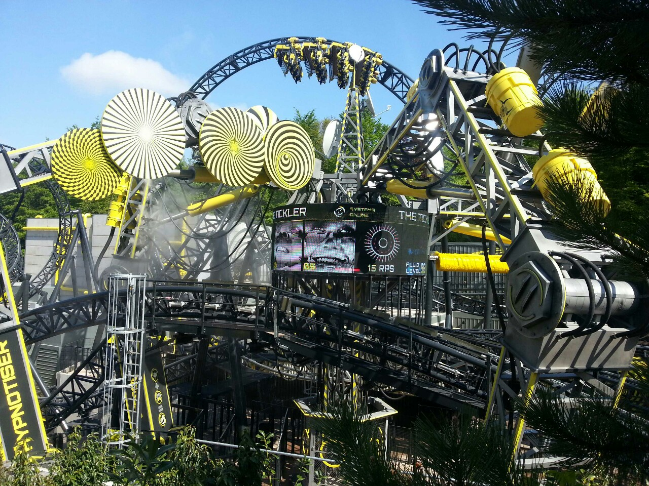 The Smiler operating on opening day.